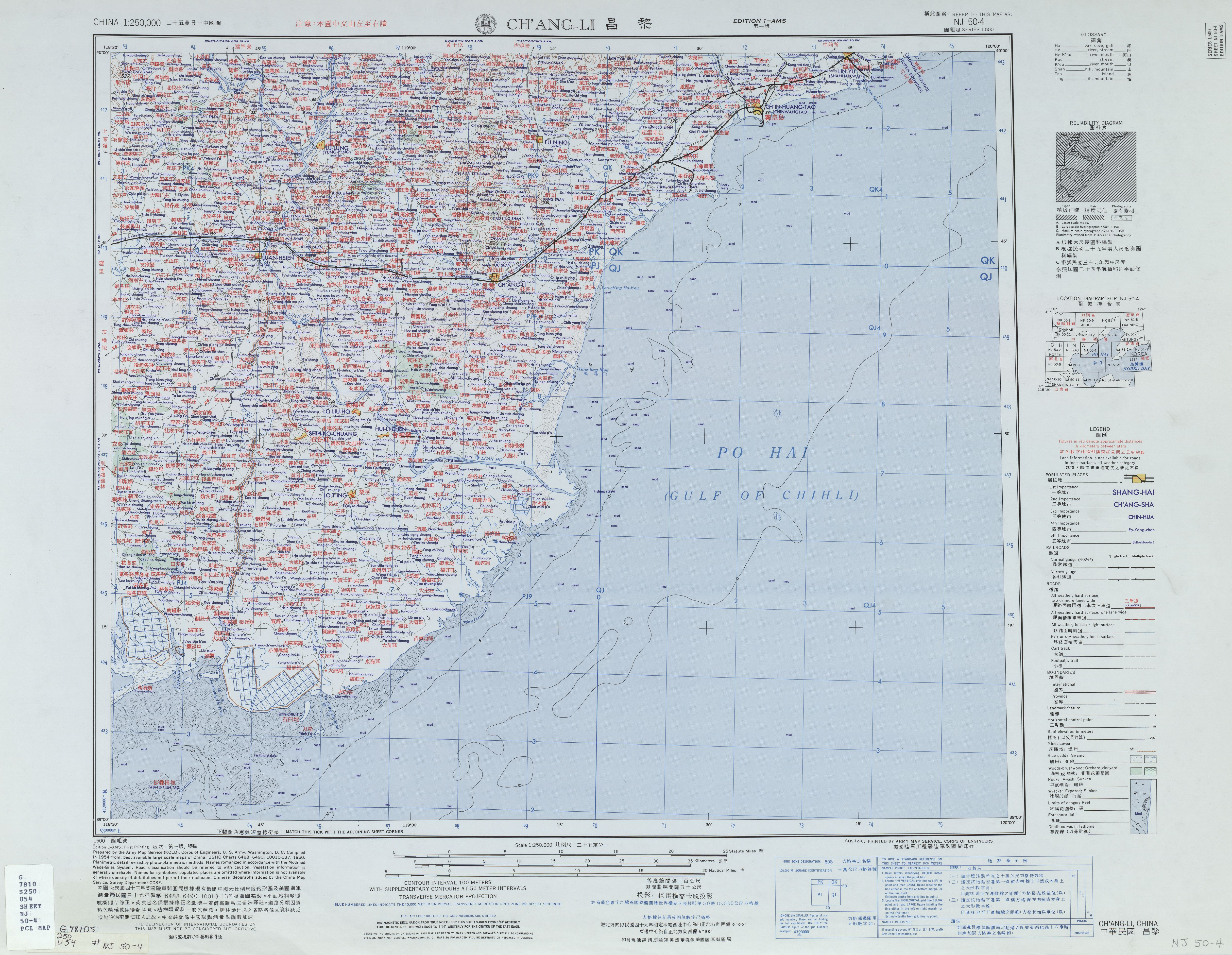 Map of Changli area, Hebei